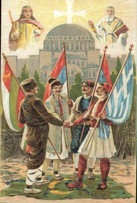 Military alliance propaganda postcard from 1912, depicting the Balkan League: a Bulgarian, Serbian, Montenegrin, and Greek, holding hands in front of the Hagia Sophia, with a lightening cross on top of it, and two saints on either side.